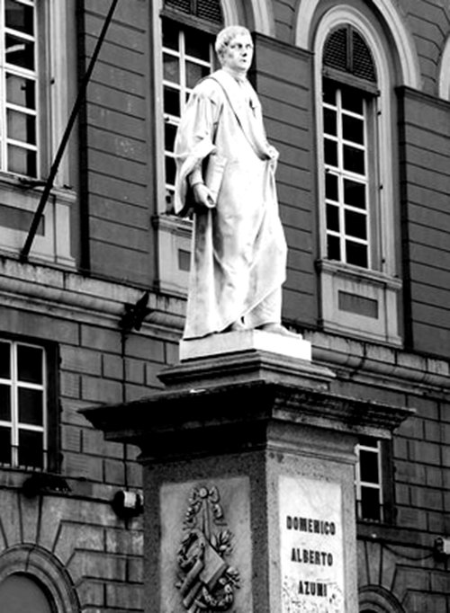 Domenico Alberto Azuni (August 3, 1749 – January 23, 1827) was an Italian jurist. He was born at Sassari, in Sardinia. He studied law at Sassari and Turin, and in 1782 was made judge of the consulate at Nice. In 1786-1788 he published his Dizionario Universale Ragionato della Giurisprudenza Mercantile. In 1795 appeared his systematic work on the maritime law of Europe, Sistema Universale dei Principii del Diritto Maritimo deli Europa, which he afterwards recast and translated into French.